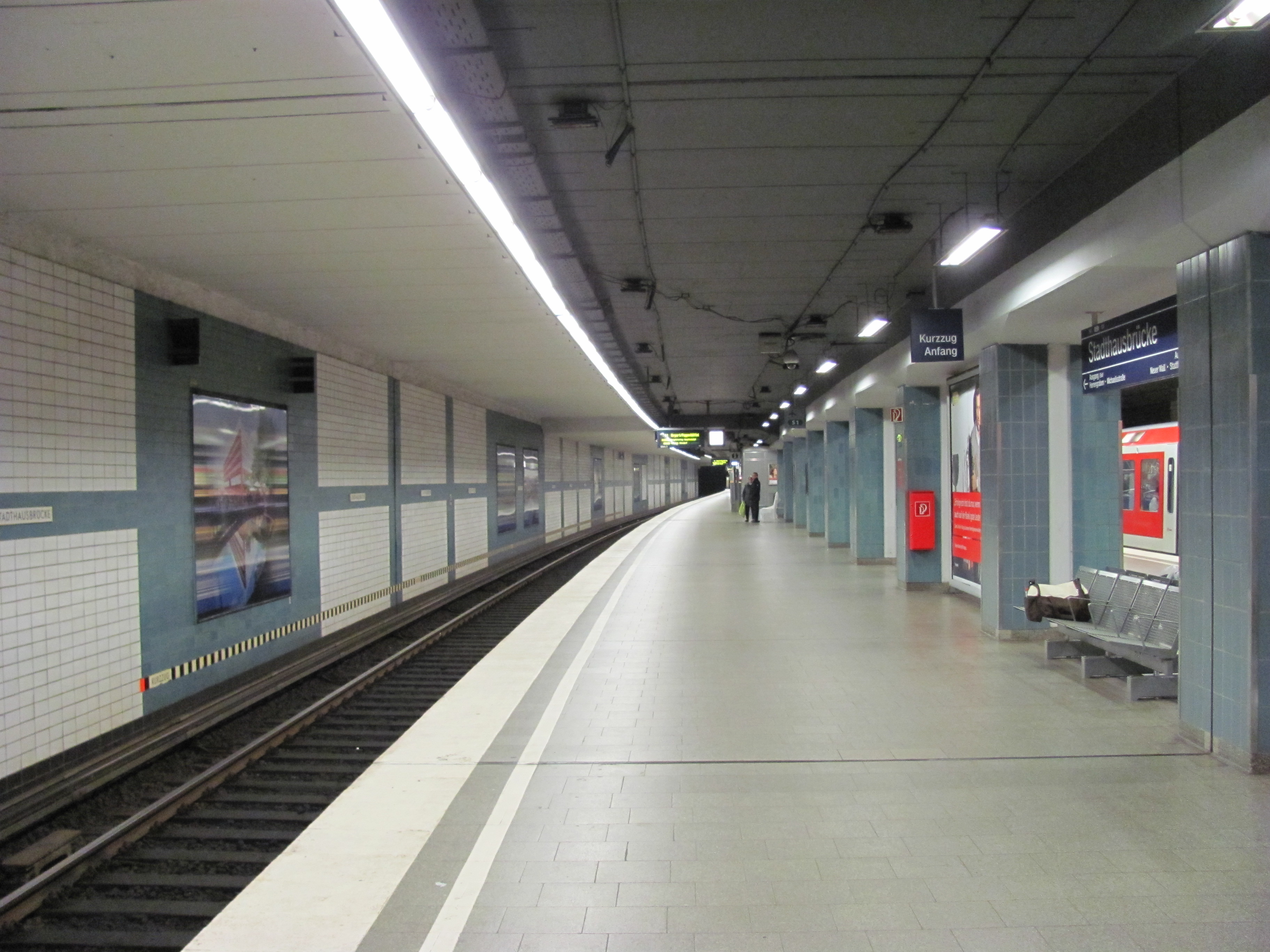 S-Bahn station Stadthausbrücke in Hamburg, Germany